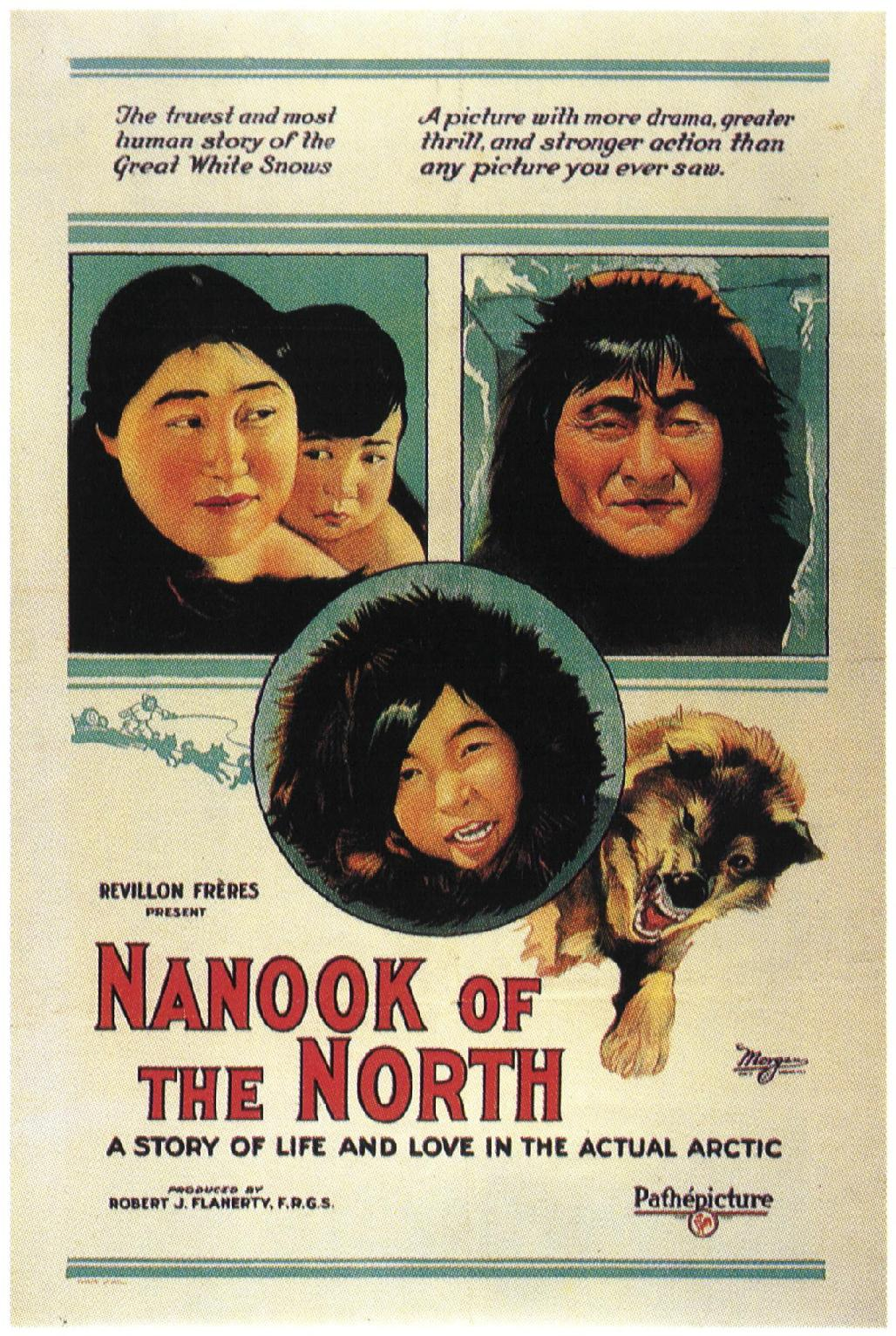 Promotional poster for the 1922 documentary Nanook of the North.